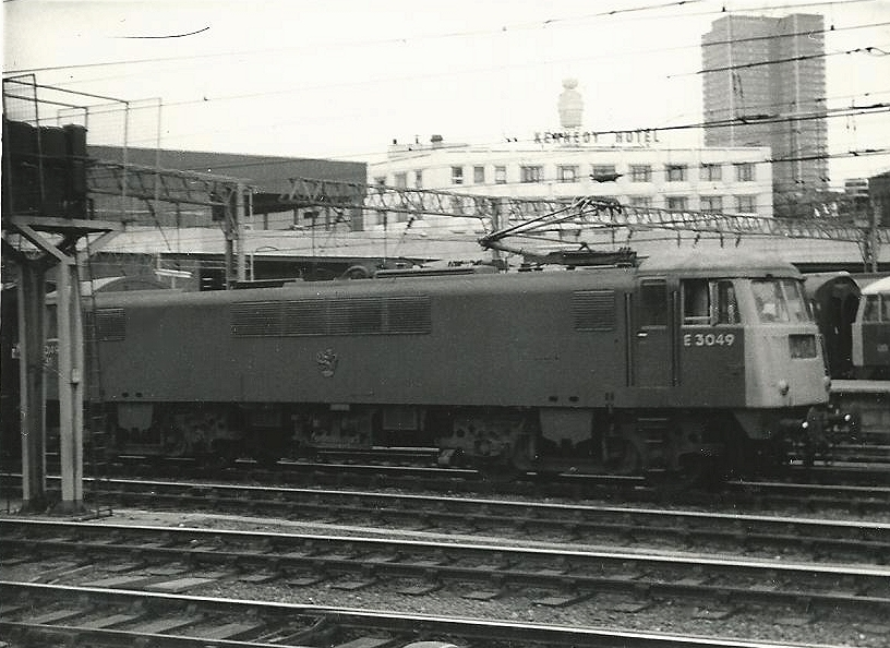 Beyer Peacock/AEI (Metropolitan Vickers) Class "AL2" (later Class "82") 25kV ac 3,300 hp Bo-Bo No.E3049 (later 82 003) in BR Electric Blue livery at Euston, 07/66. Scanned photograph taken with a Kowa SET camera.